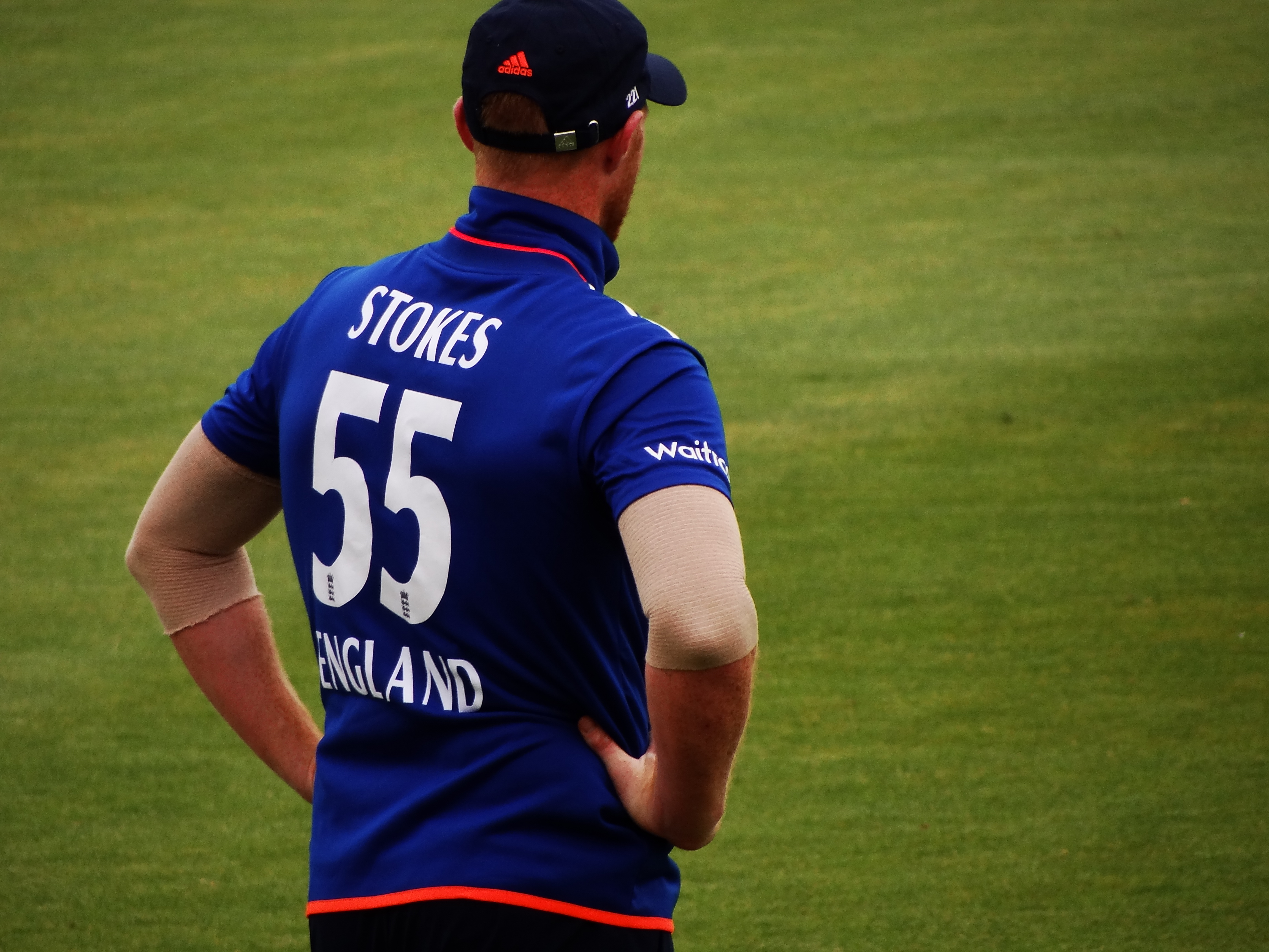 Third ODI between England and New Zealand in 2015